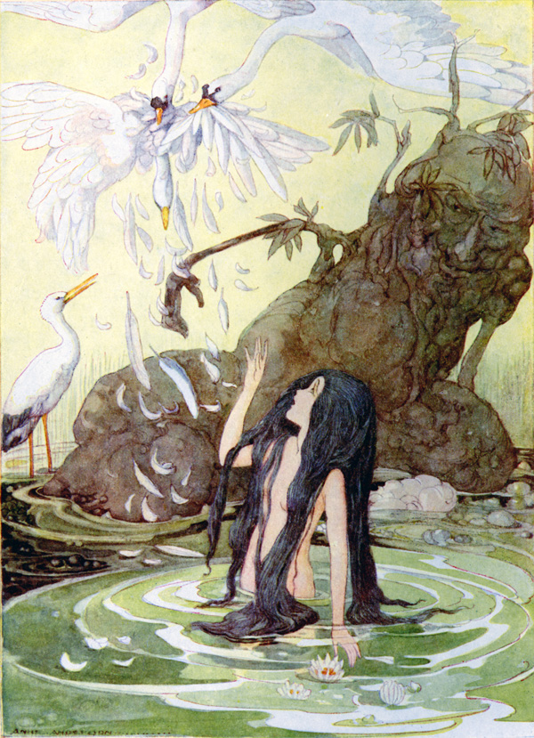 "The Marsh King's Daughter". The wicked sisters flew off without her.